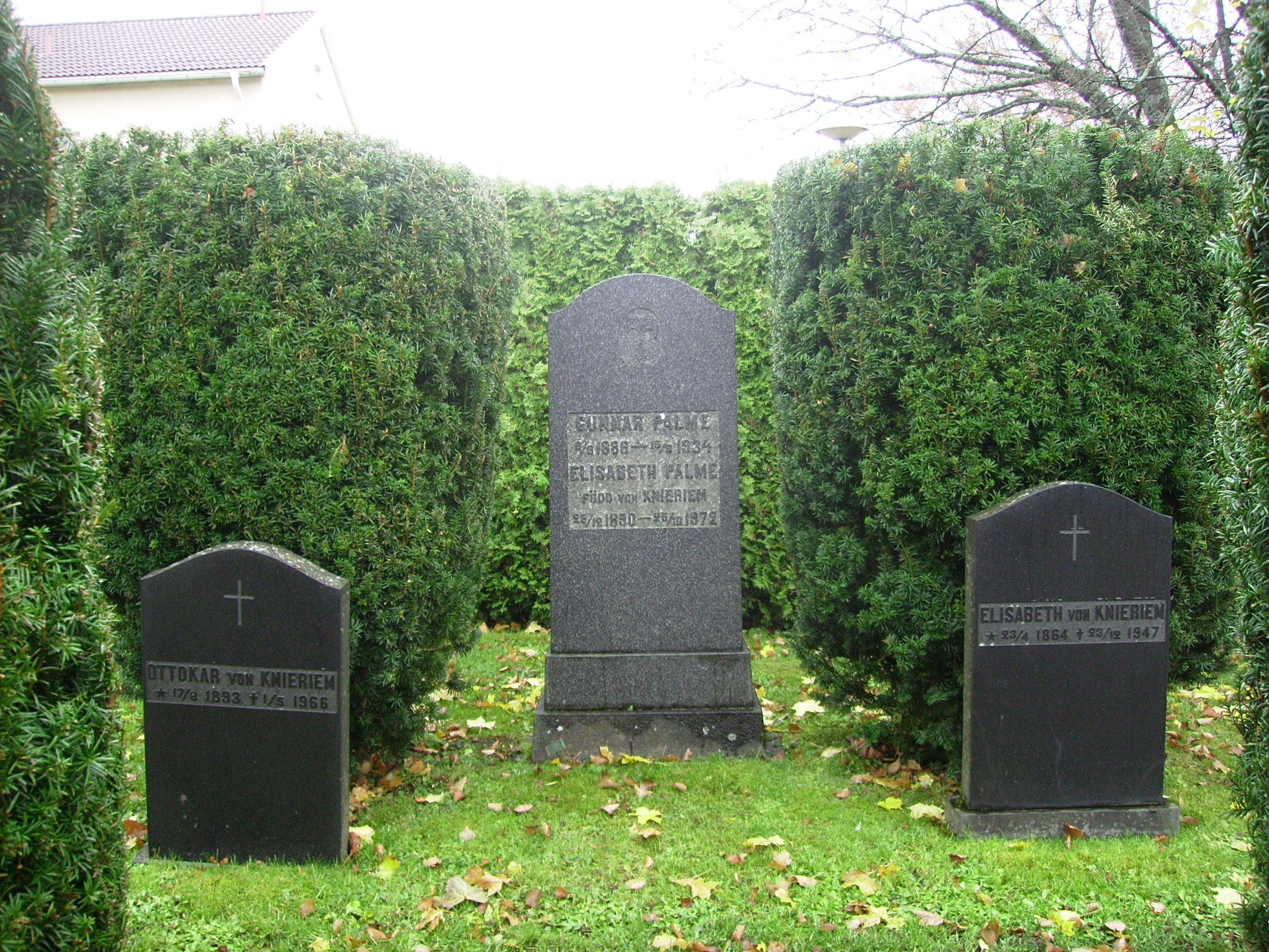 Picture of Gunnar Palme's grave at Alla Helgona kyrkogård in Nyköping